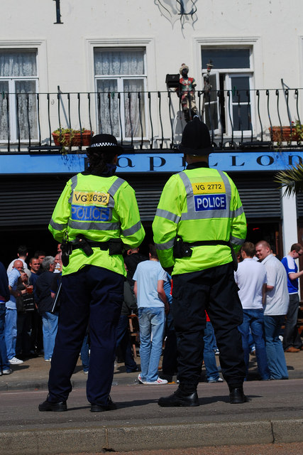 Law and order Police keeping an eye on football fans on Southend seafront